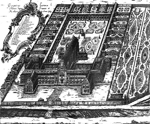 Monastery St. Bruno (today known as "Kloster Karthaus") in Konz-Karthaus